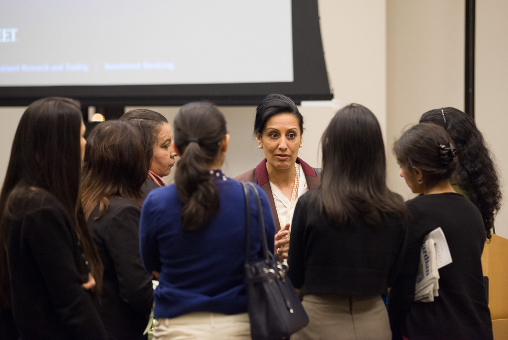 Dr Kamel Hothi OBE renowned for mentoring hundreds of younger Sikh female professionals on how to balance careers and family life